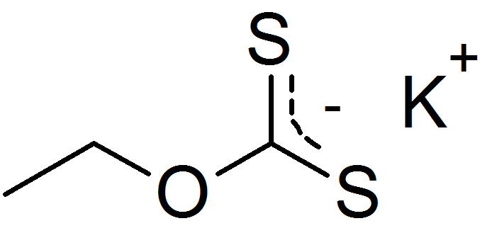 Structure of potassium ethyl xanthate